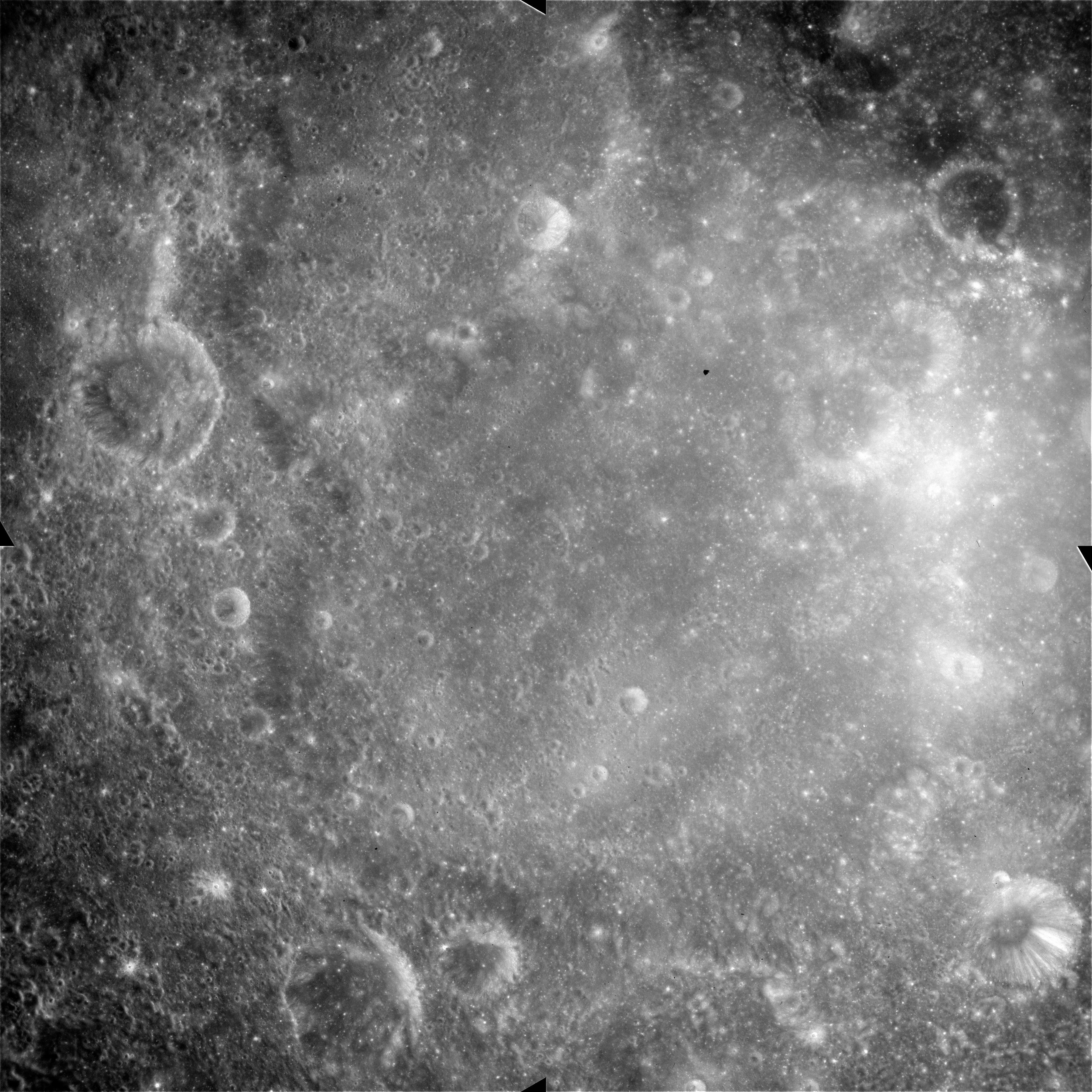 Kästner, on the moon. Camera altitude 119 km, sun angle 61 deg.